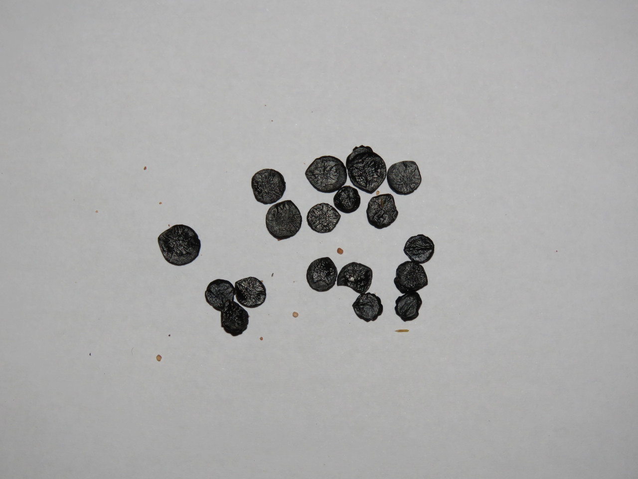 The seeds from a Dipcadi glaucum plant that are dispersed when the plant dies and its pods bursts open